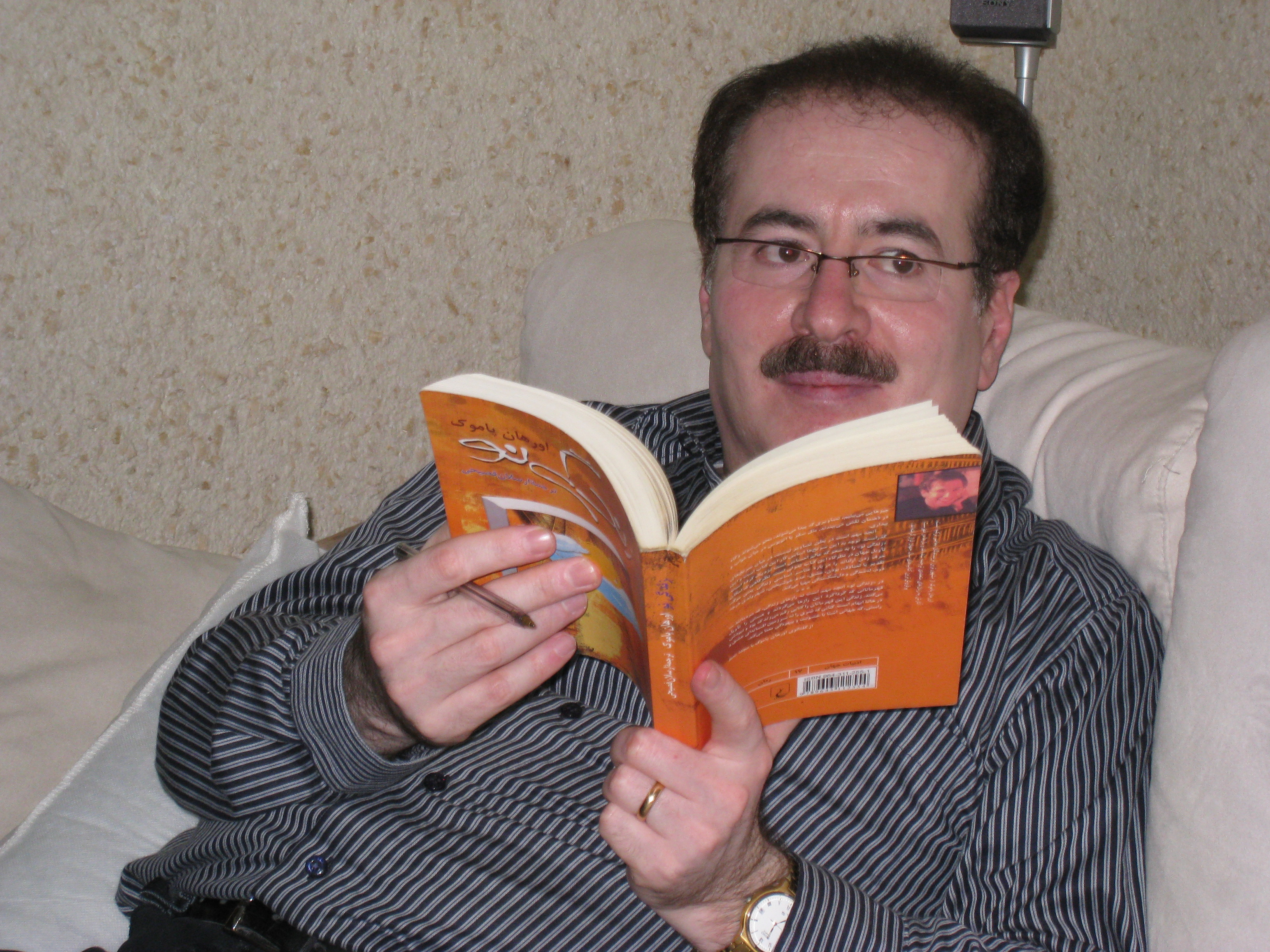 Arsalan/Arslan Fasihi, an Iranian translator